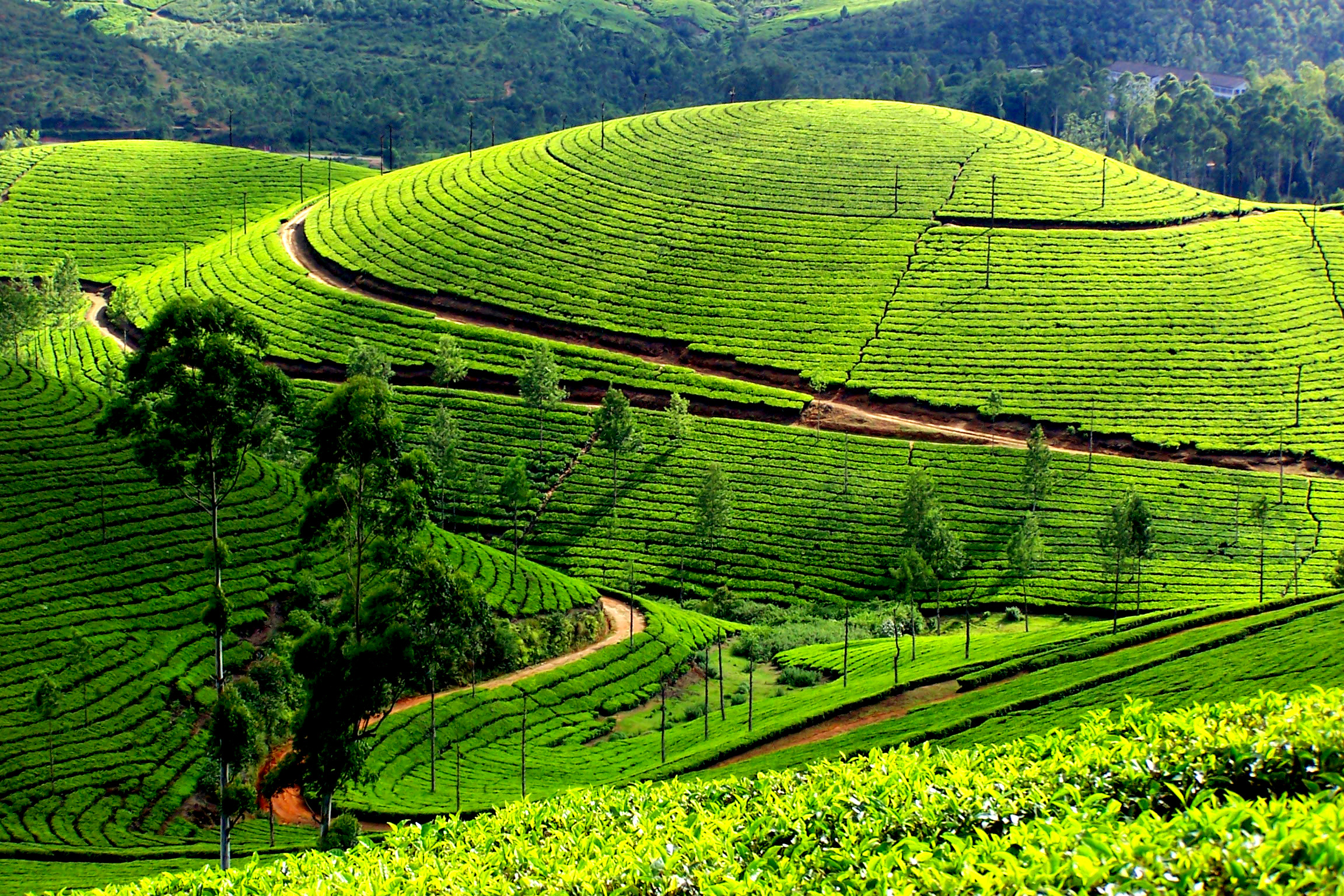 Munnar tea plantations